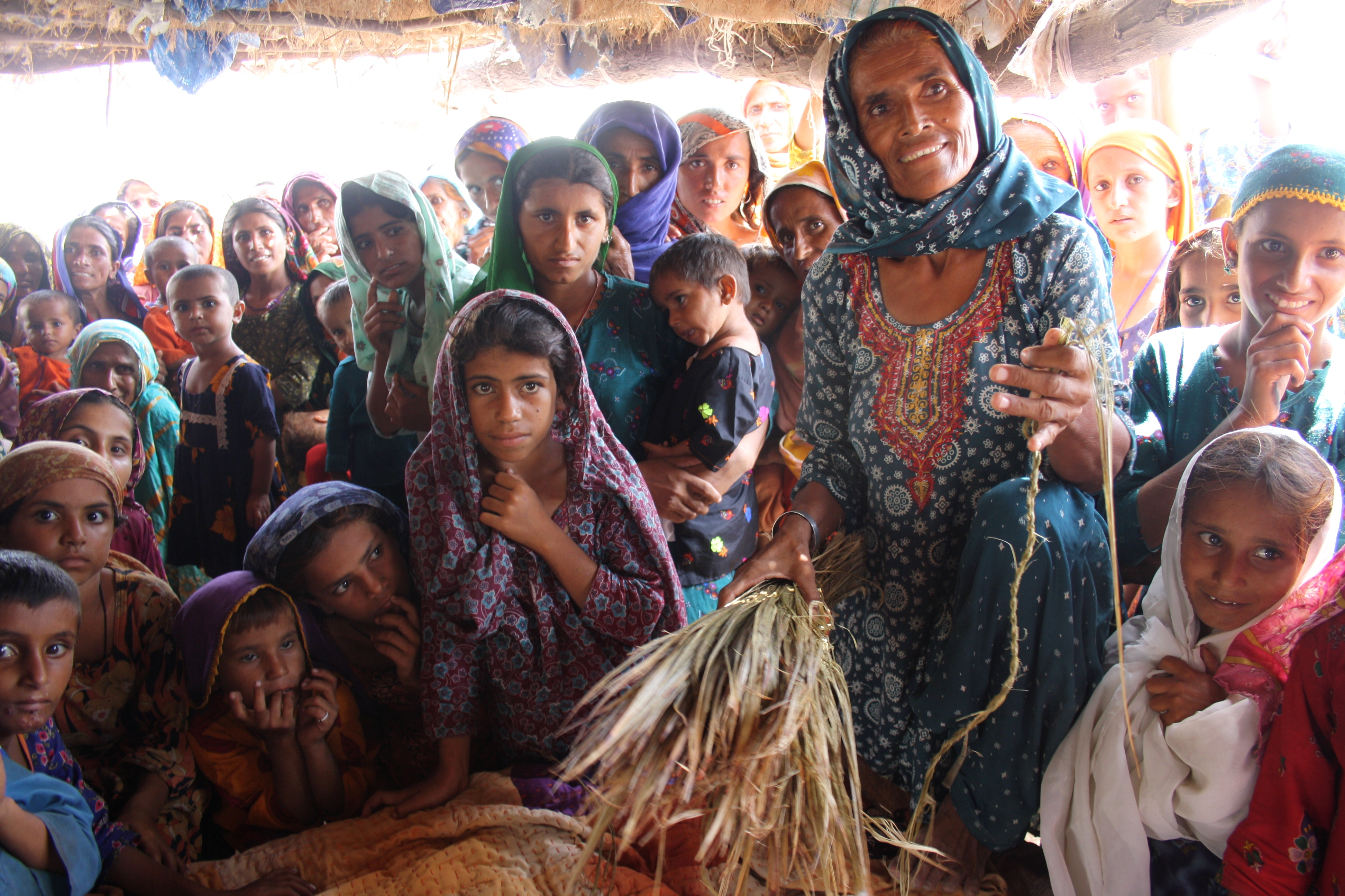 Women and girls in Shadadkot, north-west Sindh, Pakistan - one of many communities across Sindh who were helped by UK aid after the flooding in 2010. Photo: Magnus Wolfe-Murra/DFID